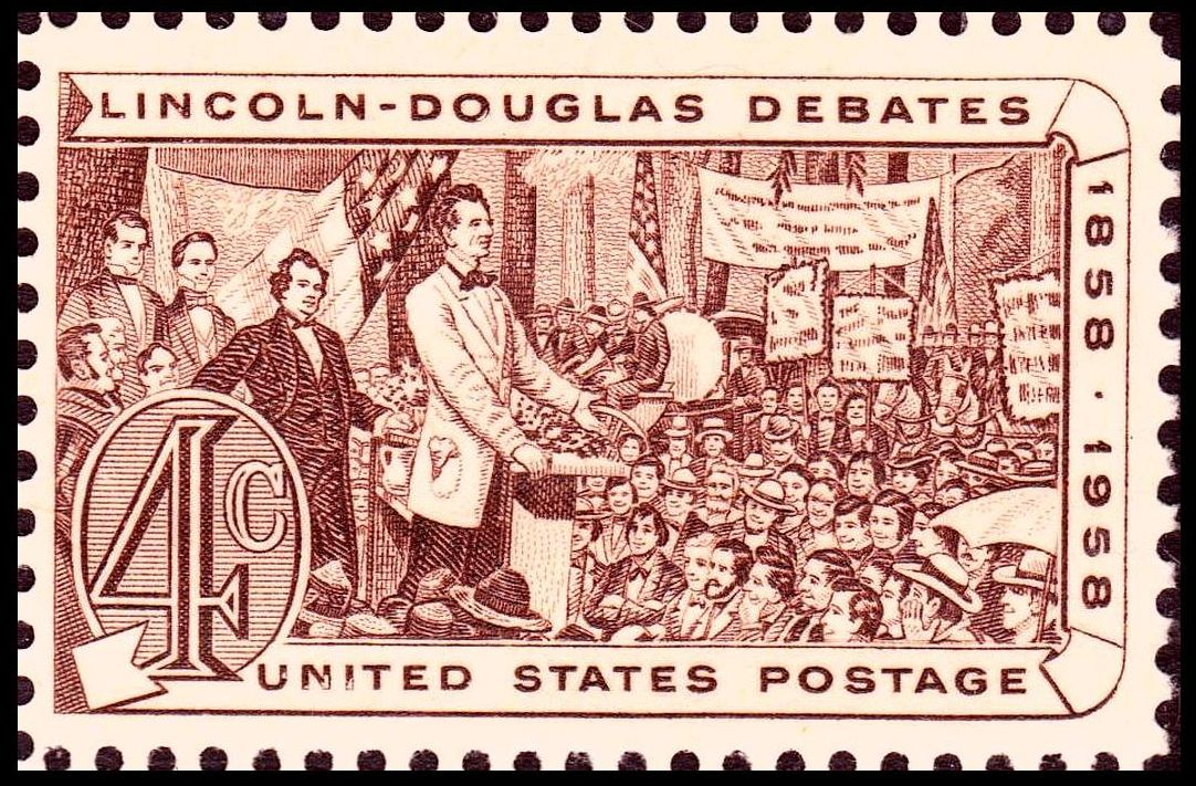 Postage stamp, Lincoln, Douglas debates of 1858